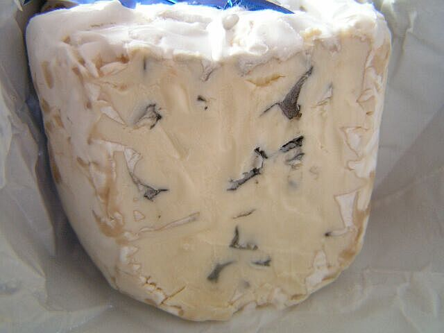 La Roche (Cheese from France)